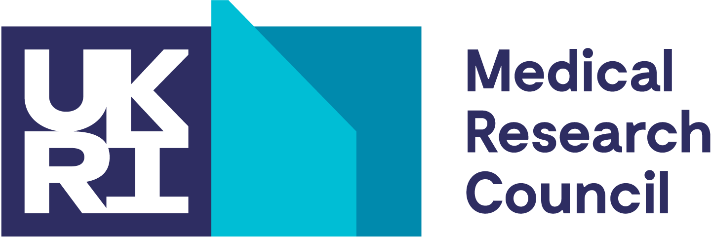 Medical Research Council (MRC) logo